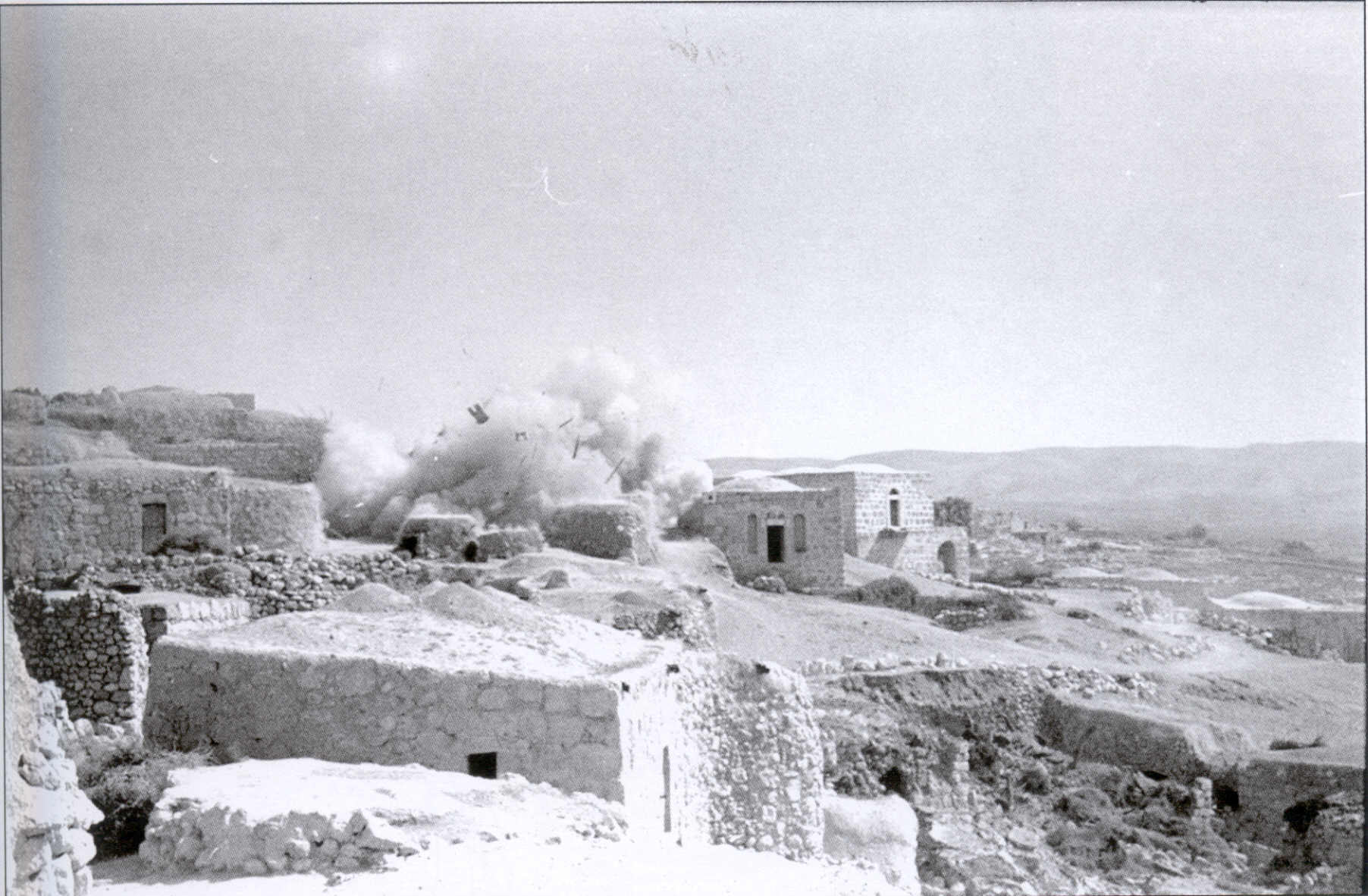 Photo shows the demolition of a house by saboteurs, during Israel's War of Independence in 1948 Other information According to Israel's copyright statute from 2007 (translation), if the copyrights are owned by the State, not acquired from a private person, and there is no special agreement between the State and the author — on 1 January of the 51st year after the creation of the work (paragraphs 36 and 42 in the 2007 statute), the photo is released to the public domain.